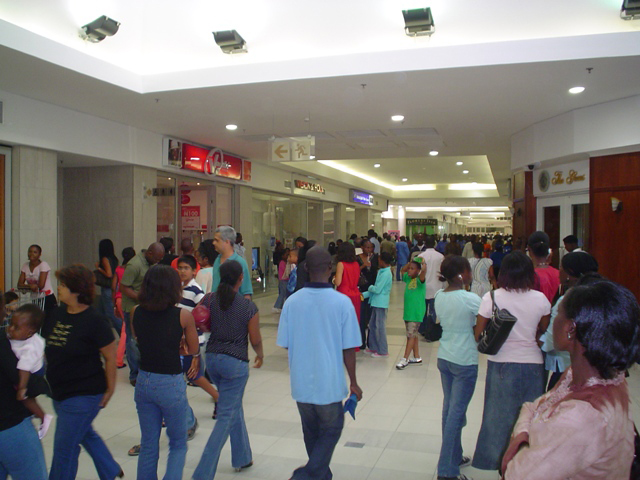 Taken 2005 by Myself, first released to the net; at by me.